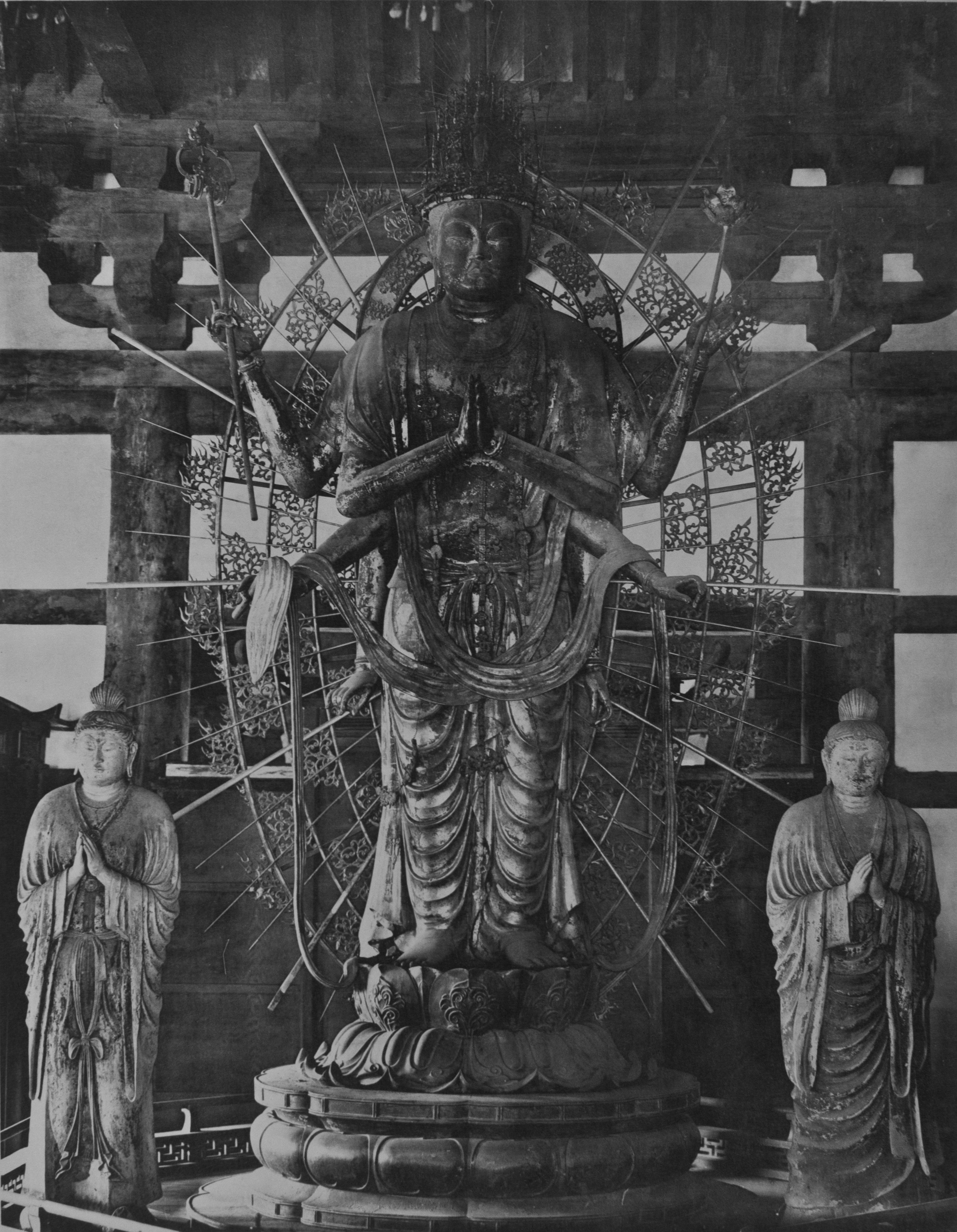 Fukūkenjaku Kannon (one of the forms of Amoghapāśa Lokesvara (Avalokitesvara bodhisattva) with 2 devas Brahman and Indra on side dated to late 8th century) located at Tōdai-ji, Nara, Japan. One of his hands (on right side of photo) holds a never-ending lasso to catch stray souls and lead them to salvation.